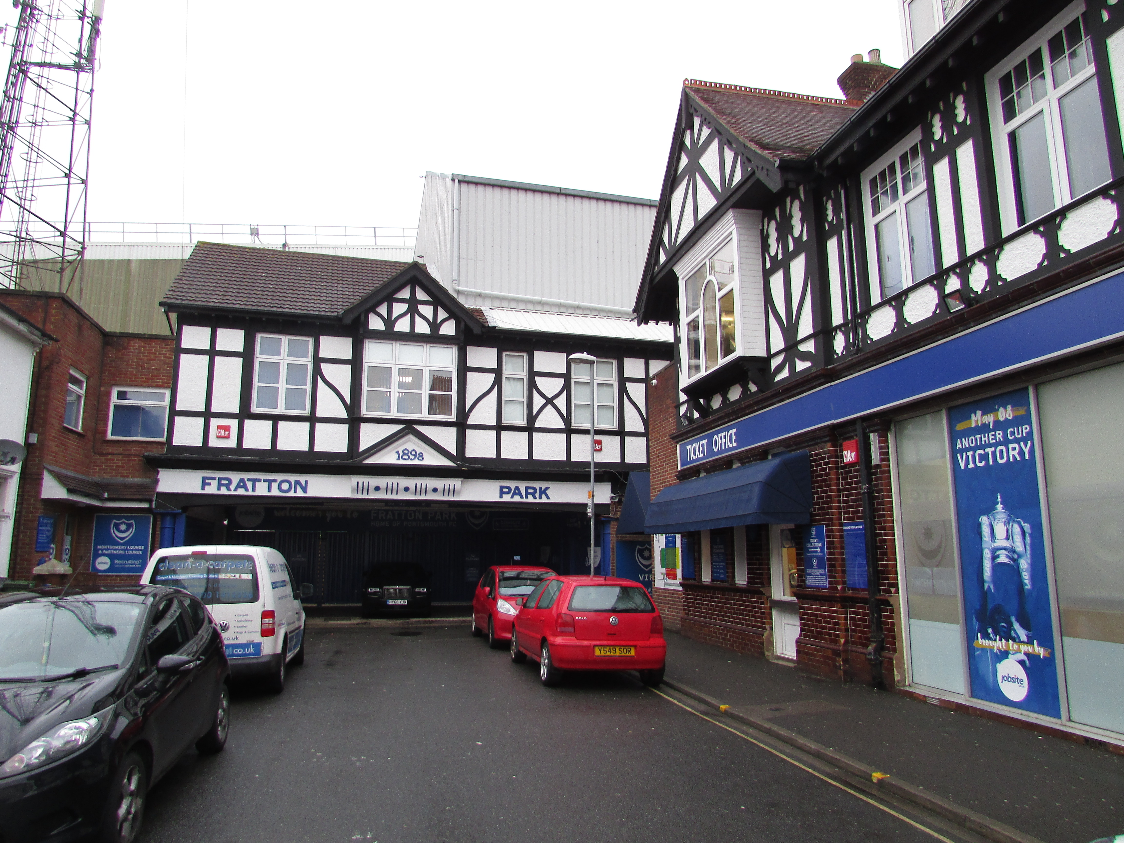 Entrance to Fratton Park (Frogmore Road) The West Stand (Fratton End) and the South Stand are accessed through this old entrance to Fratton Park, the home of Portsmouth Football Club (nickname Pompey). Pompey boasts the most honours of any football club south of London, most notably Football League Champions in 1948-49 and 1949-50, and F.A.Cup Winners in 1939 and 2008. The football club is in the city of Portsmouth in the English county of Hampshire in England.